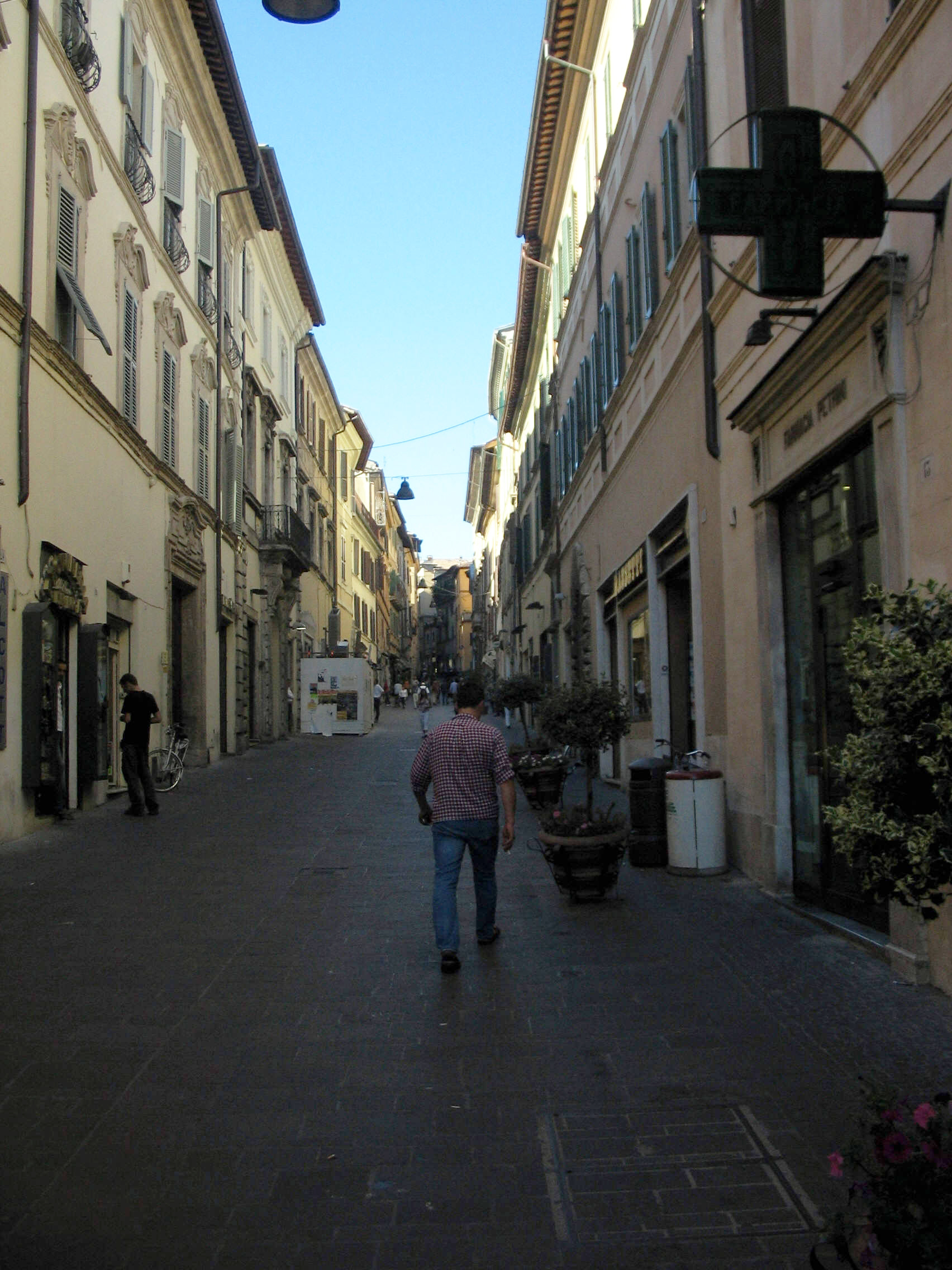 Via Roma - Rieti, Lazio, Italia